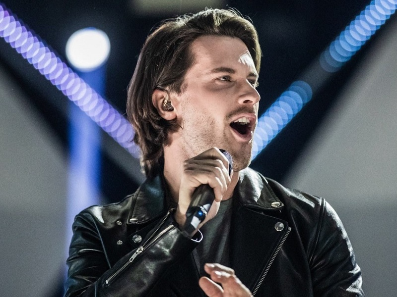 Wear his leather jacket